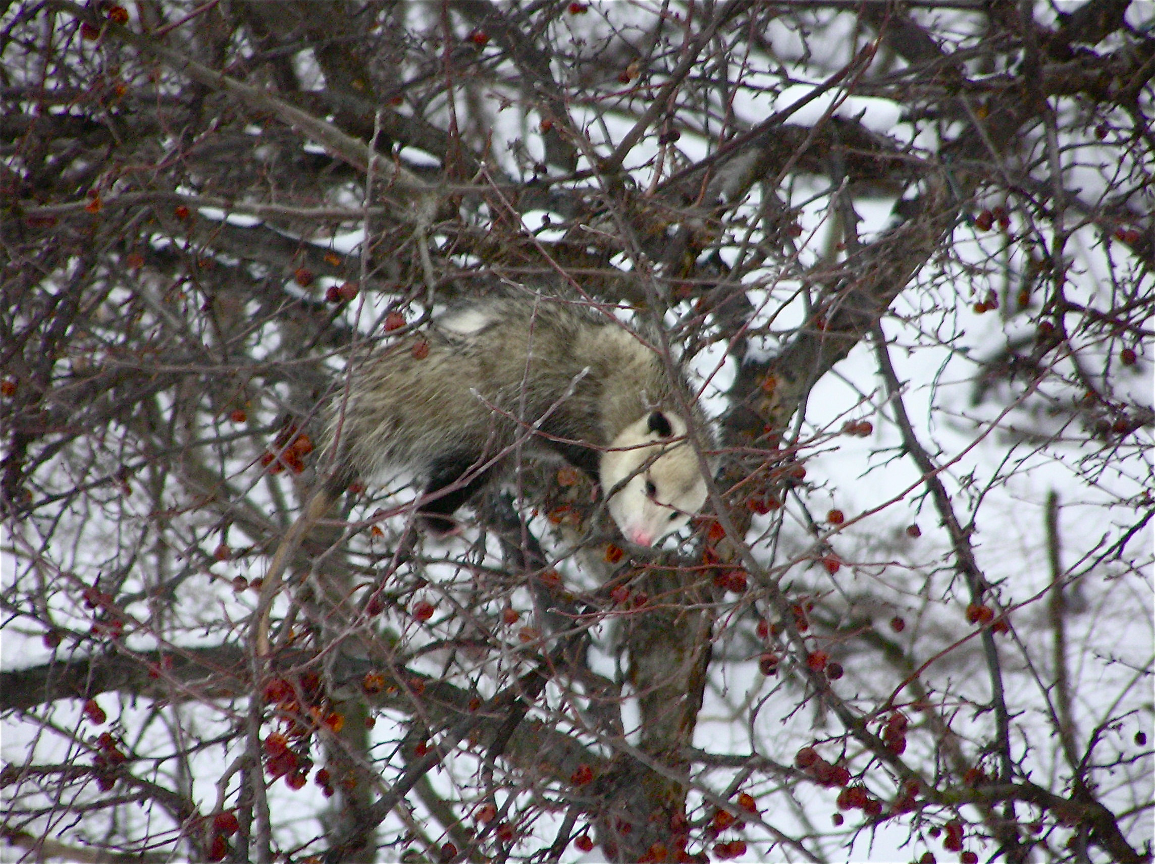 A beautiful possum with dark-furred legs, white face, and full coat enjoys some crabapples. Sorry for the lousy pic, I took it at full zoom through a window pane, then adjusted the heck out of it for sharpness. Lost a little quality in the process!